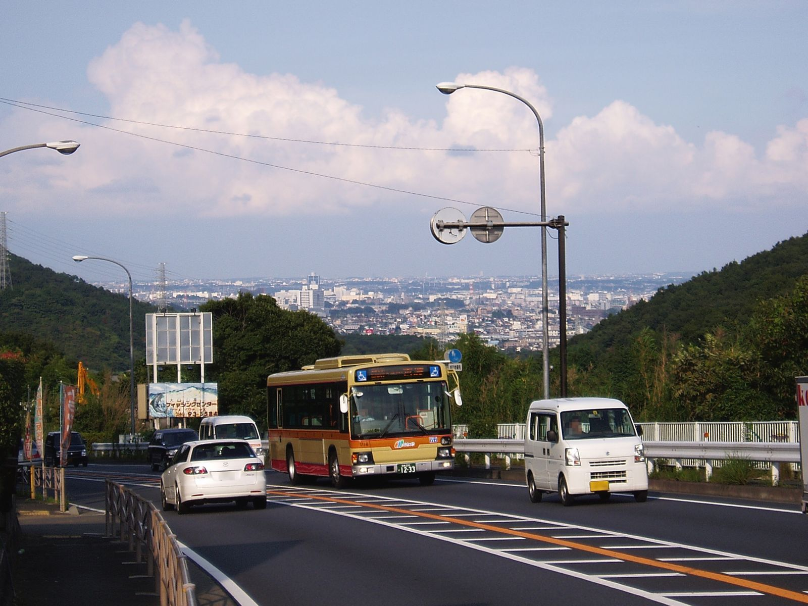 Kanagawa Chuo Kotsu which runs near Zemba Pass of the Route 246 in Japan Hino PKG-KV234N2